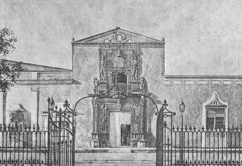 Low quality image of 19th century illustration or print.